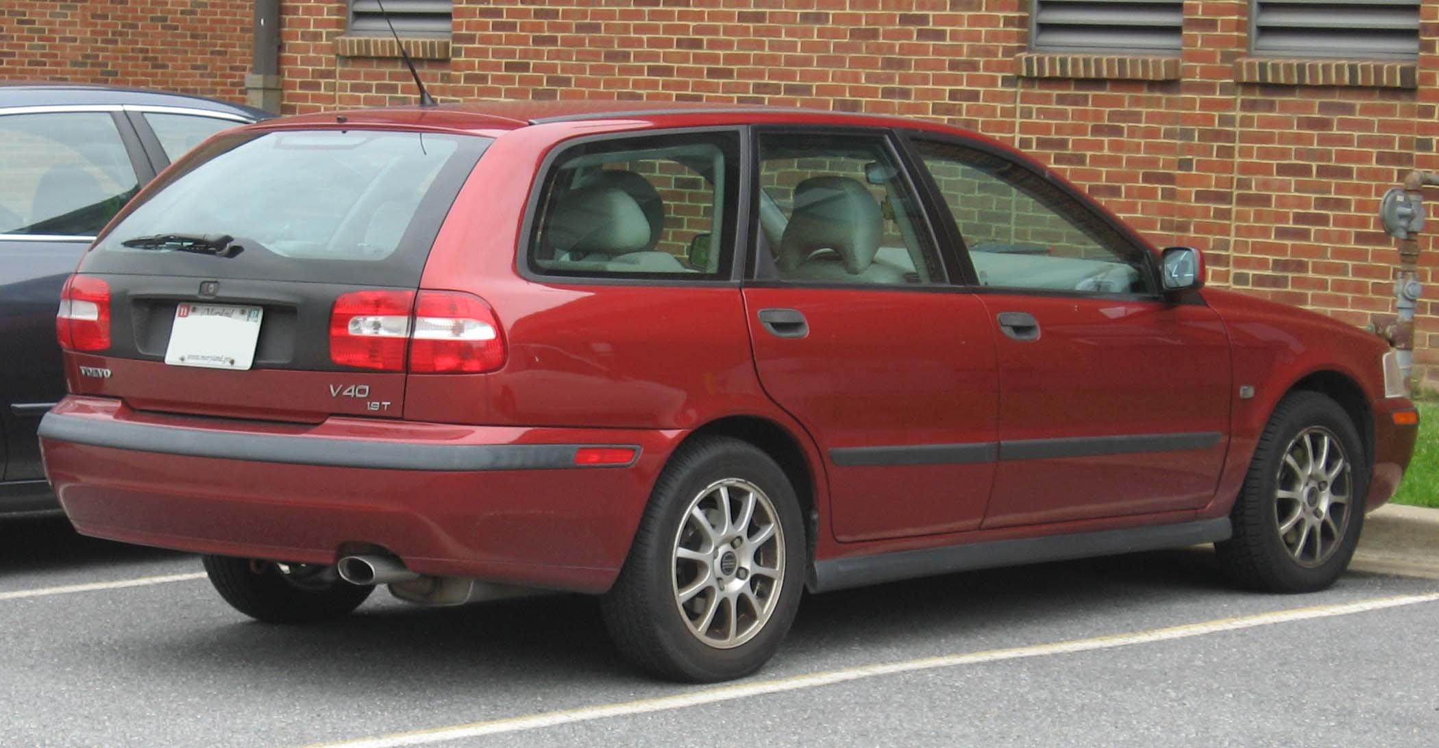 Volvo V40 photographed in USA.